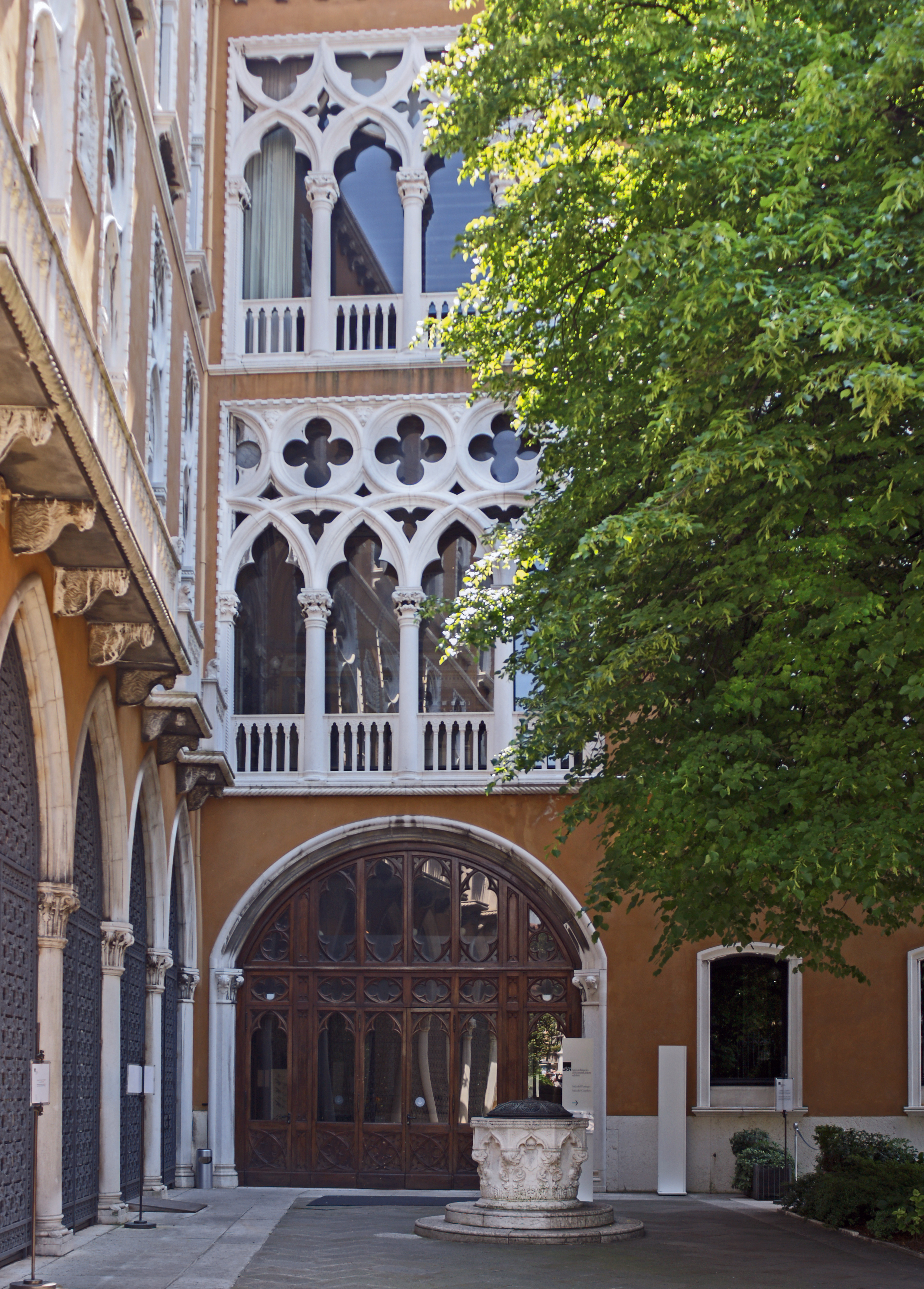 Palazzo Cavalli-Franchetti, Venice - The court and the well